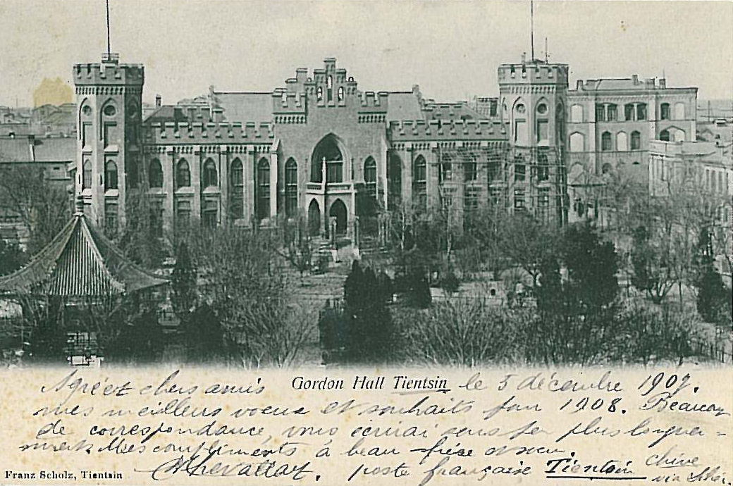 Historical postcard of China